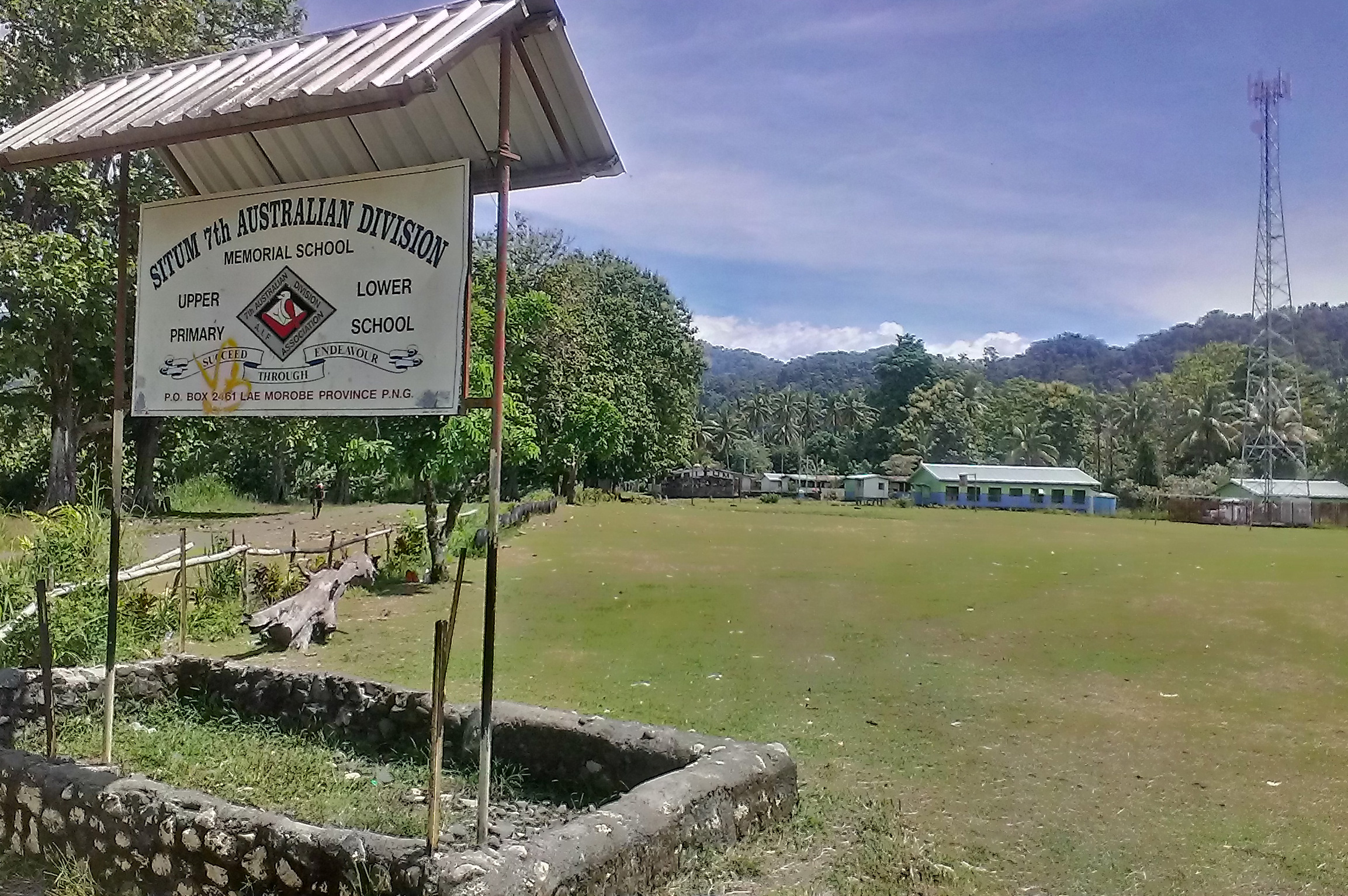 Photo facing 7th Australian Division Memorial School